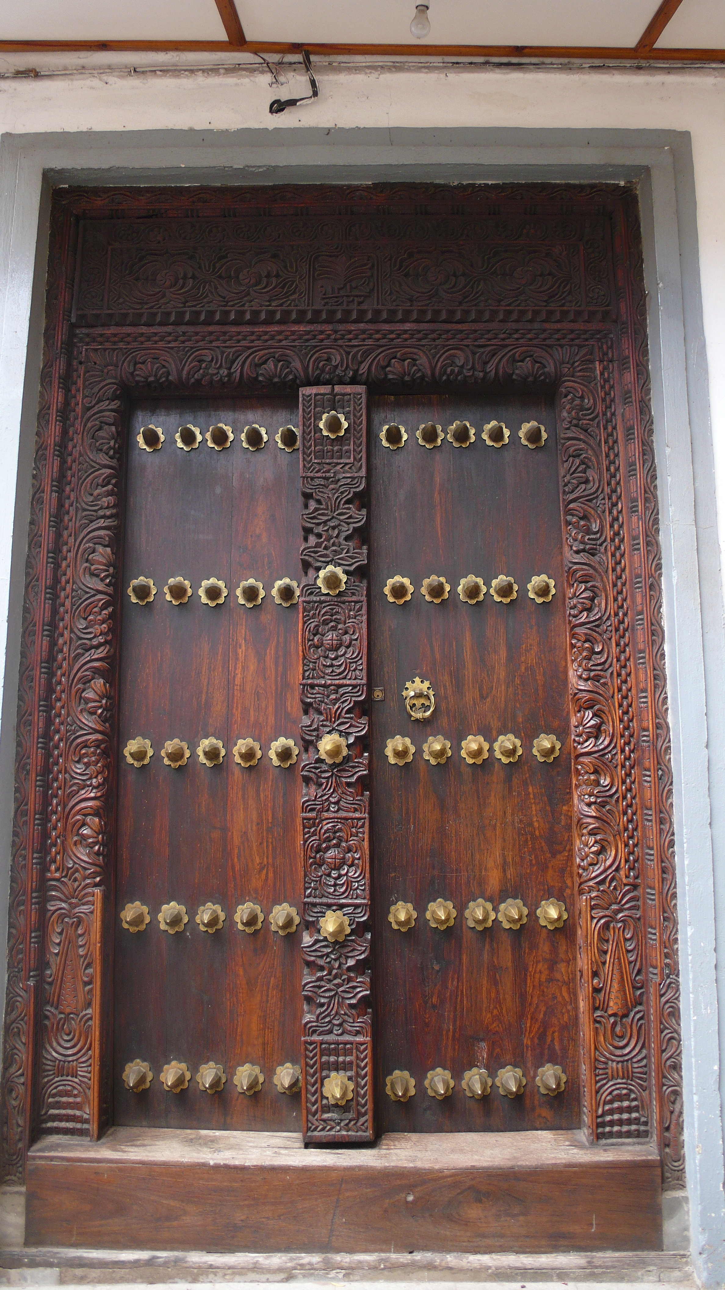 Carved door — in Stone Town, Zanzibar City.